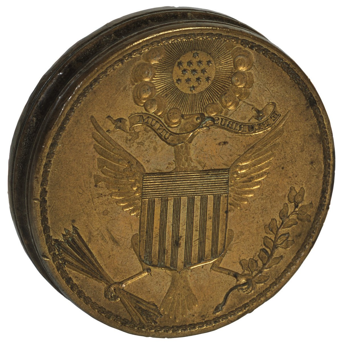 The first (1782) die of the Great Seal of the United States, used until 1841. Today it is on display at the National Archives in Washington, D.C.